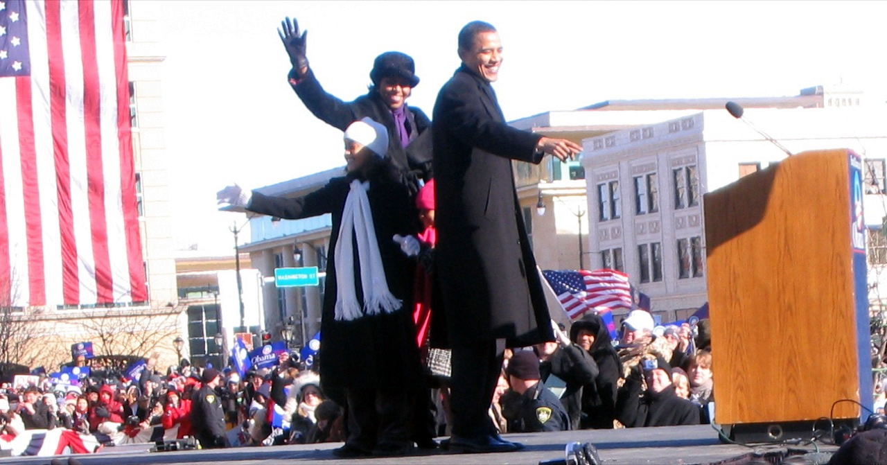 Springfield, Illinois, USA. Barack Obama, his wife Michelle, and daughters. "The Future First Family Waves. Senator Obama's family was on hand for the announcement, and he invited them on stage to wave to the crowd before he began his speech."